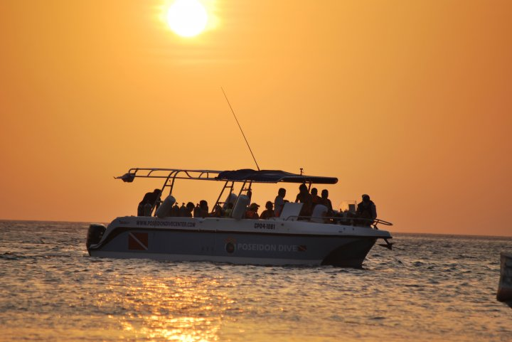 Diving at taganga. Picture of sunset in Taganga Bay, a Catamaran Boat arriving at the dock.